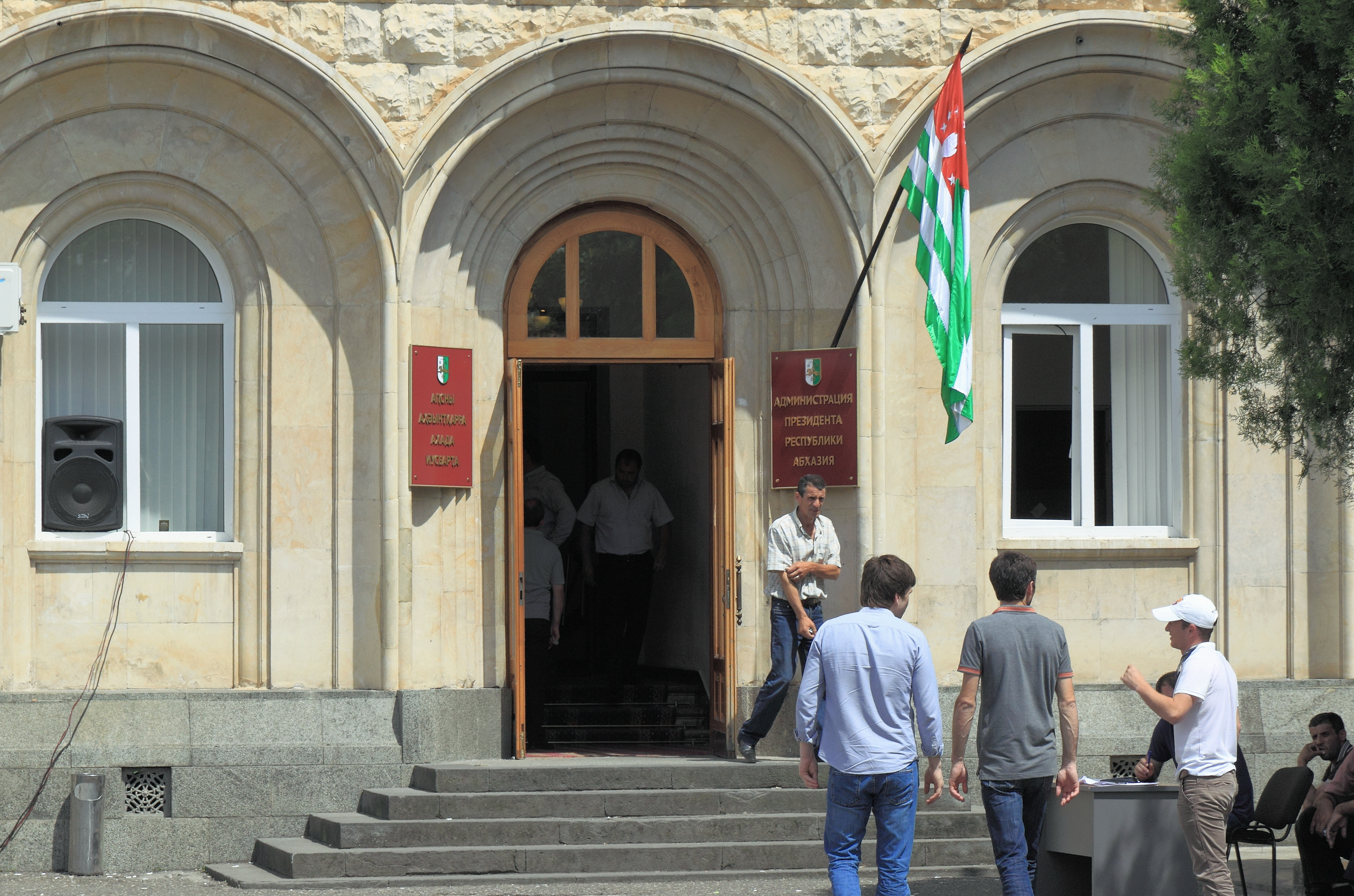 The seat of the President of the Republic of Abkhazia during the Abkhazian Revolution. Sukhumi, Abkhazia.